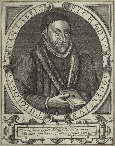 Portrait of Richard Rogers (1550?-1618).